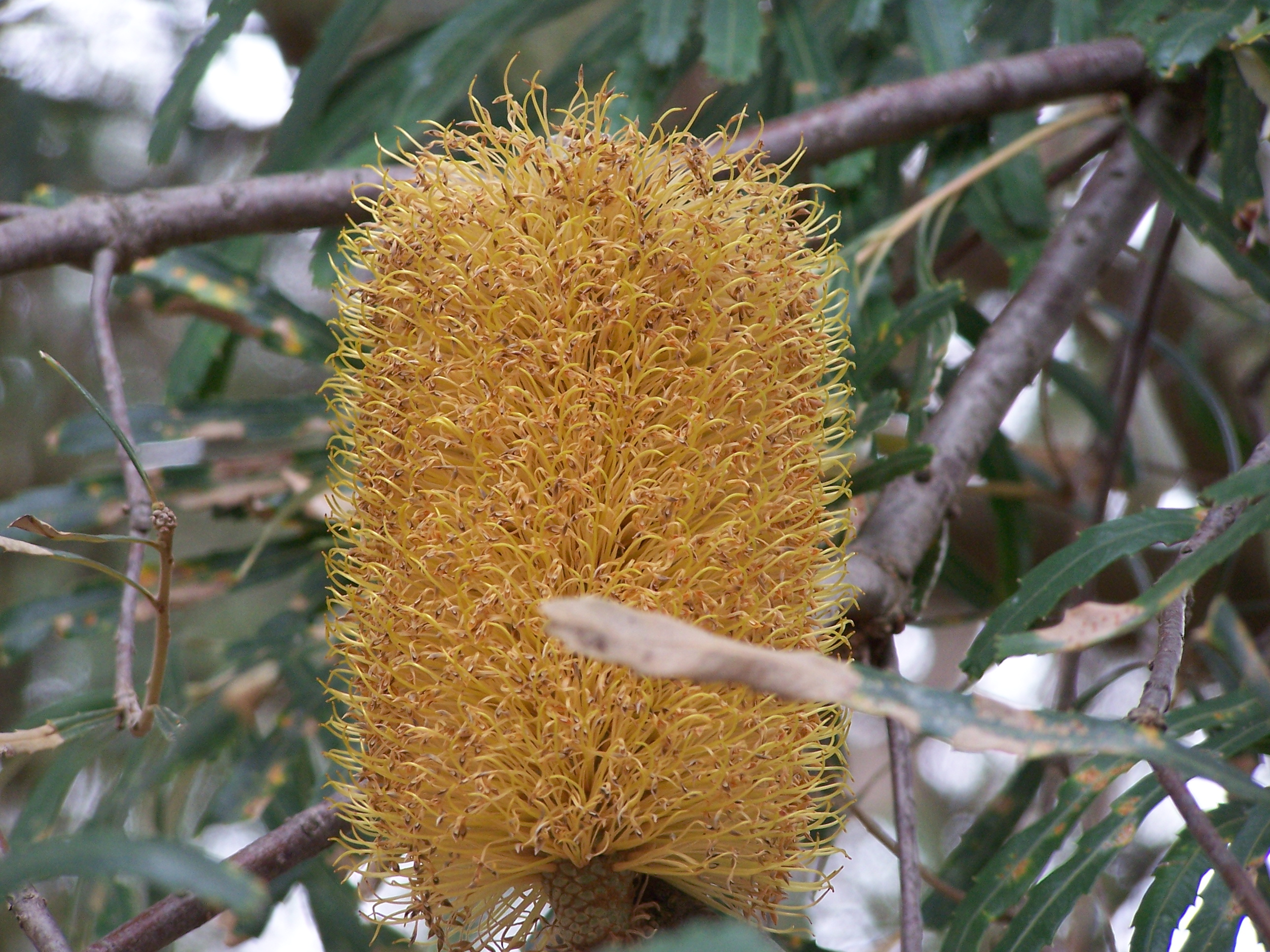 Banksia plants, currently flowering in the Banksia garden in Kings Park Banksia littoralis Swamp Banksia